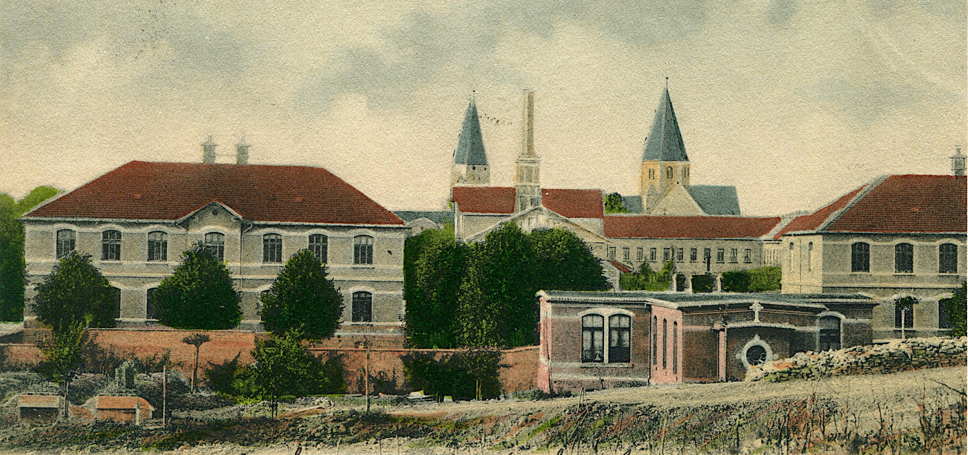 Photography, reproduced as colorized postcard, published by H. Schmoock, Königslutter, detail. Healing and Care Institution’s building at Königslutter (Heil- und Pflegeanstalt in Königslutter), constructed in 1865. Visible in the background are the spires of the Kaiserdom Königslutter as well as the chimneys of the institution’s kitchen and laundry facility as of 1890.